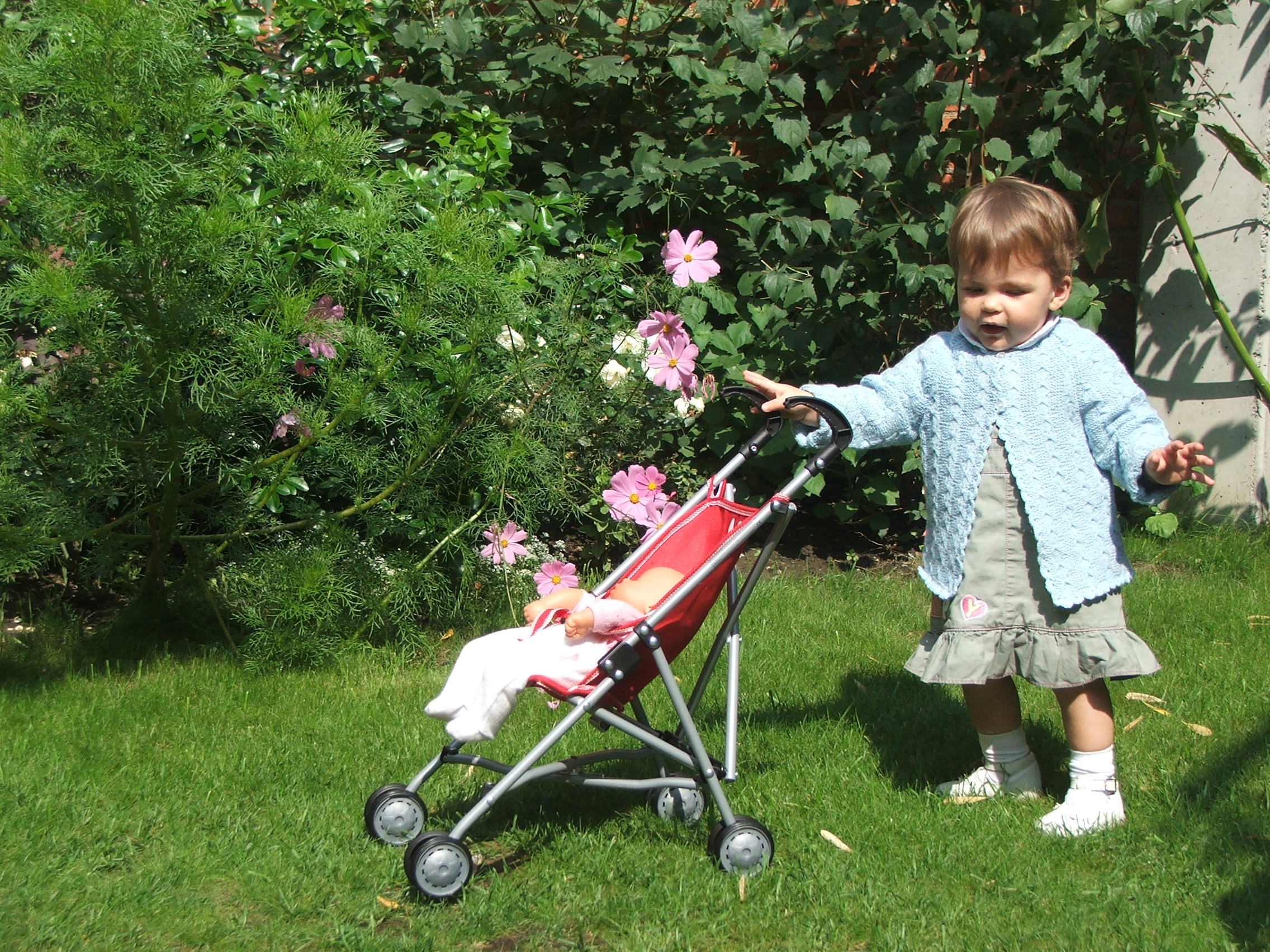 Enfant et poussette Personality rights warning Although this work is freely licensed or in the public domain, the person(s) shown may have rights that legally restrict certain re-uses unless those depicted consent to such uses. In these cases, a model release or other evidence of consent could protect you from infringement claims.